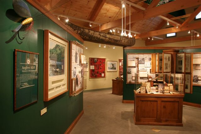 Interior View of The American Museum of Fly Fishing, Manchester, VT.